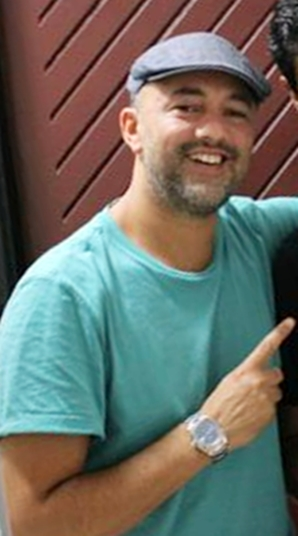 Redone with Atif Zinachi in Tetouan, Martil